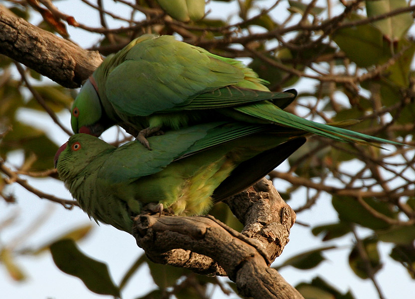 Rose-ringed Parakeet or Ringnecked Parakeet Psittacula krameri near Hodal, Faridabad, Haryana, India.